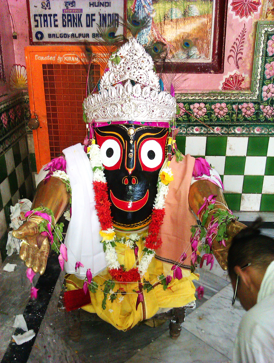 Lord Jagannath in Khirachora Gopinath Temple Remuna, Balasore